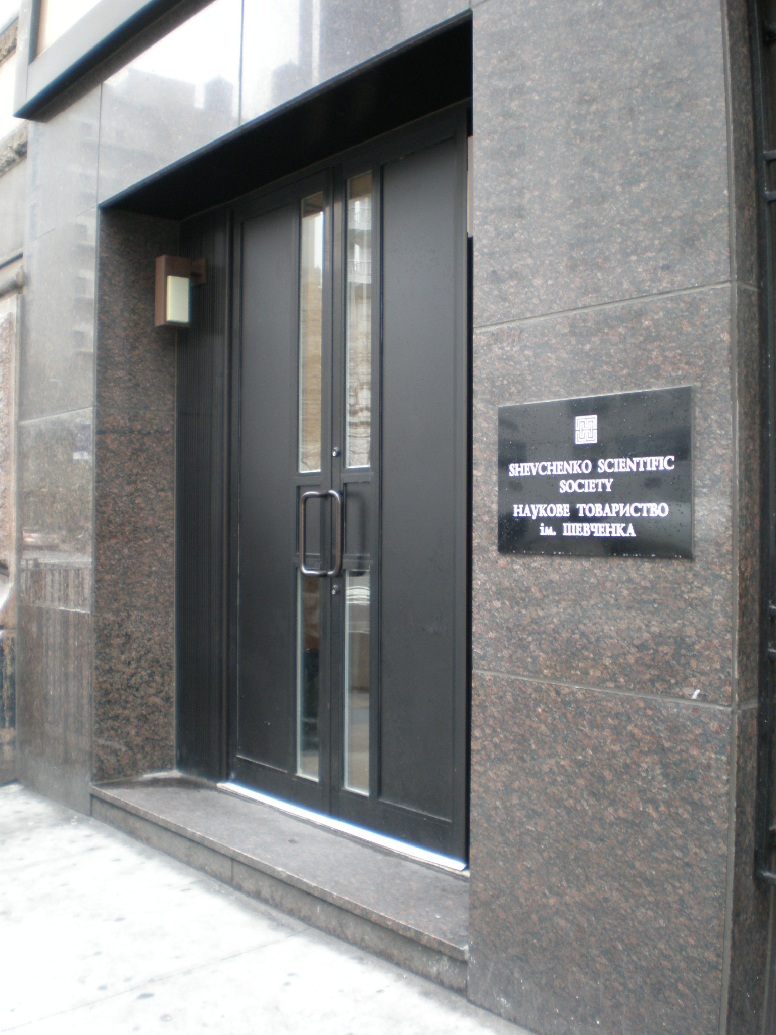 This photo is of Wikipedia Takes Manhattan location code 139, Shevchenko Scientific Society.